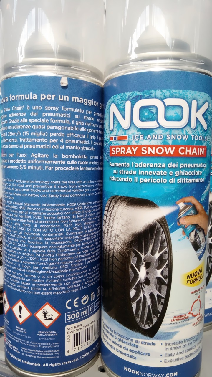 Tire spray capable of improving snow grip, within a limited mileage and below a certain cruising speed